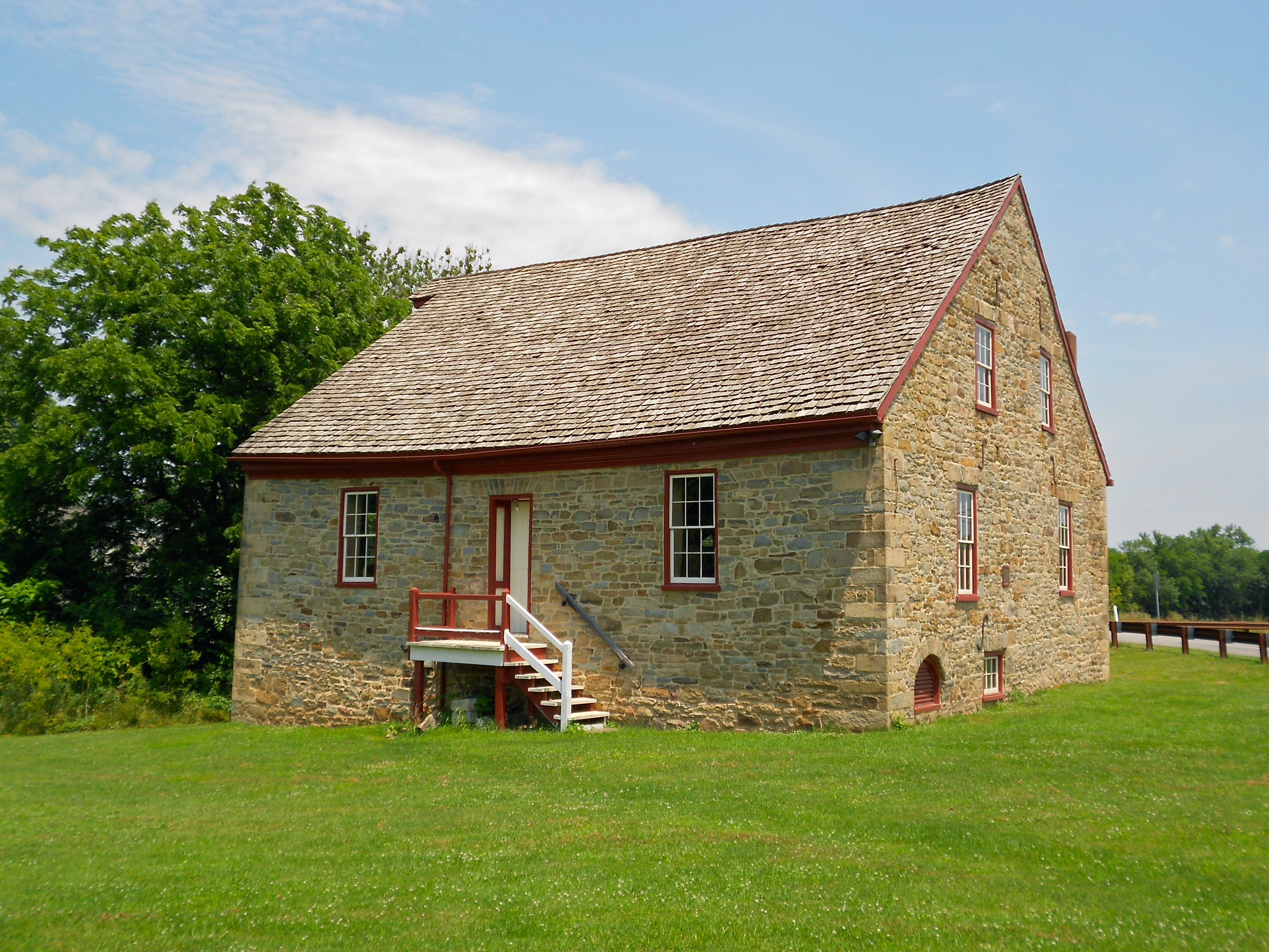 Swigart's Mill in York County, Pennsylvania, built 1794. This is just east of the town of East Berlin, Adams County, Pennsylvania (the creek is the county border line). East Berlin (formerly known as Berlin) is not named after the cold war political division in Germany, but is meant to distinguish between the several towns in German-settled areas of Pennsylvania known as Berlin.